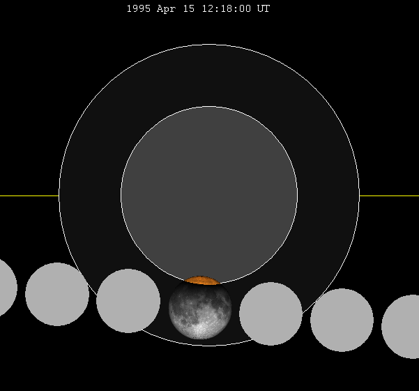 April 1995 lunar eclipse chart of moon's partial lunar eclipse path through the earth's shadow. thumb